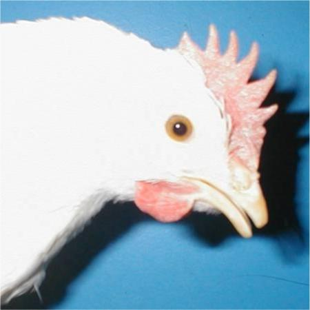 A White Leghorn pullet whose beak has been trimmed. See also photo of the same chicken before being debeaked.